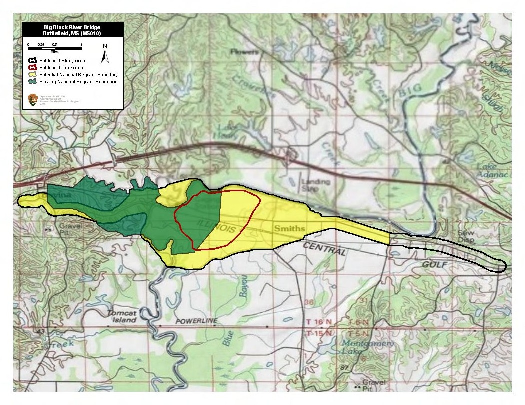 Map of battlefield core and study areas.